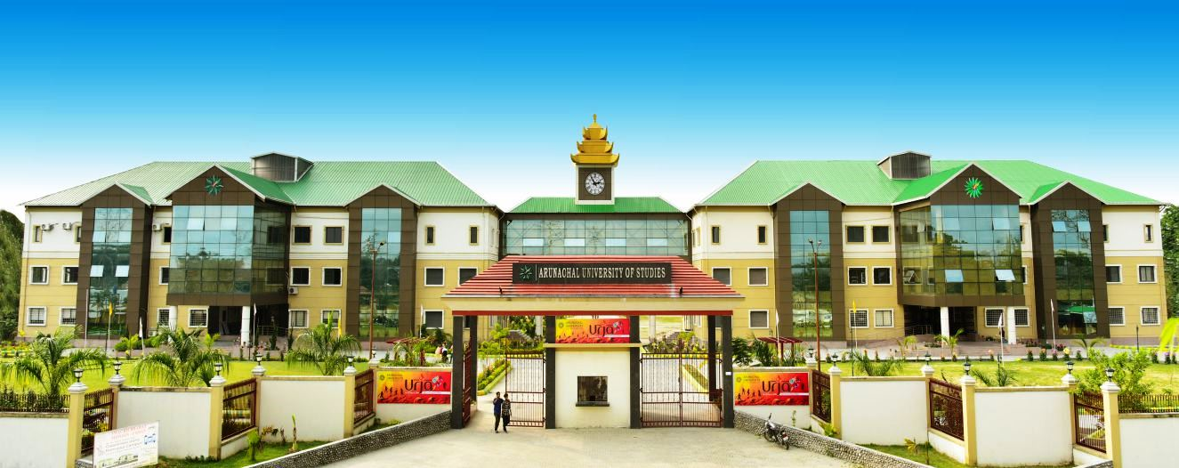 About Arunachal University of Studies